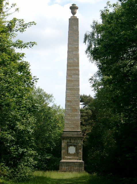 The Obelisk. The Obelisk in the Black Fen area of Bramham Park.